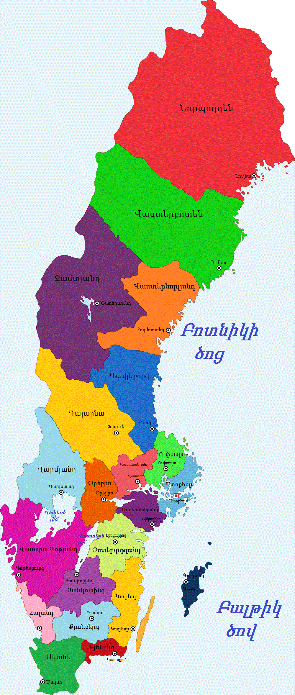 sweden map